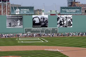 Boston Red Sox tribute to red Sox legend, Ted Williams